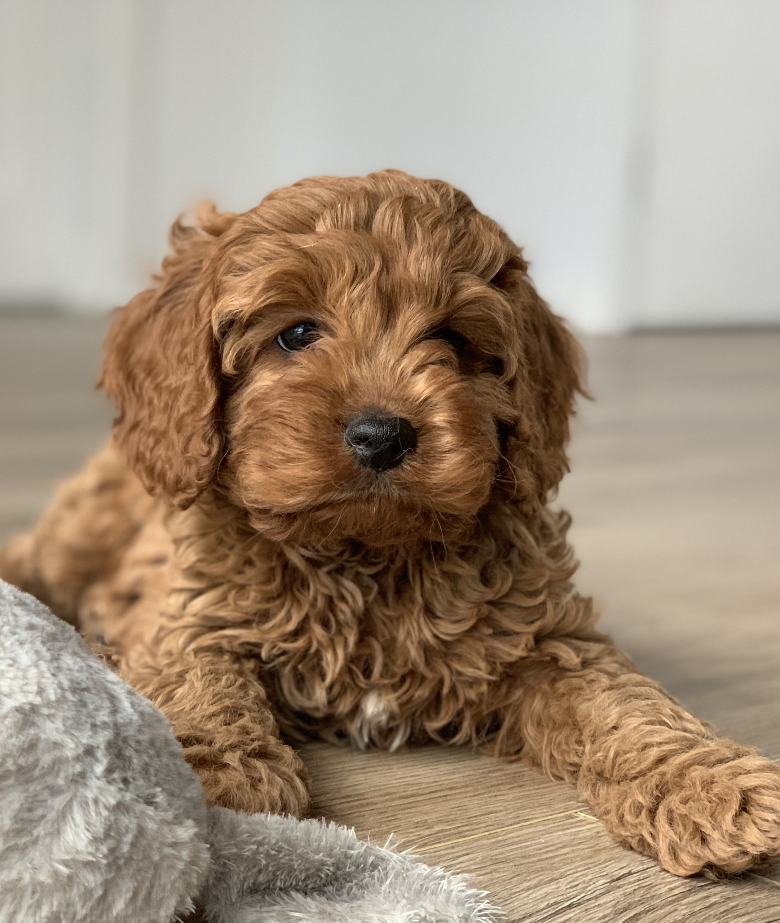 Red Cavoodle Puppy from Urban Puppies Australia